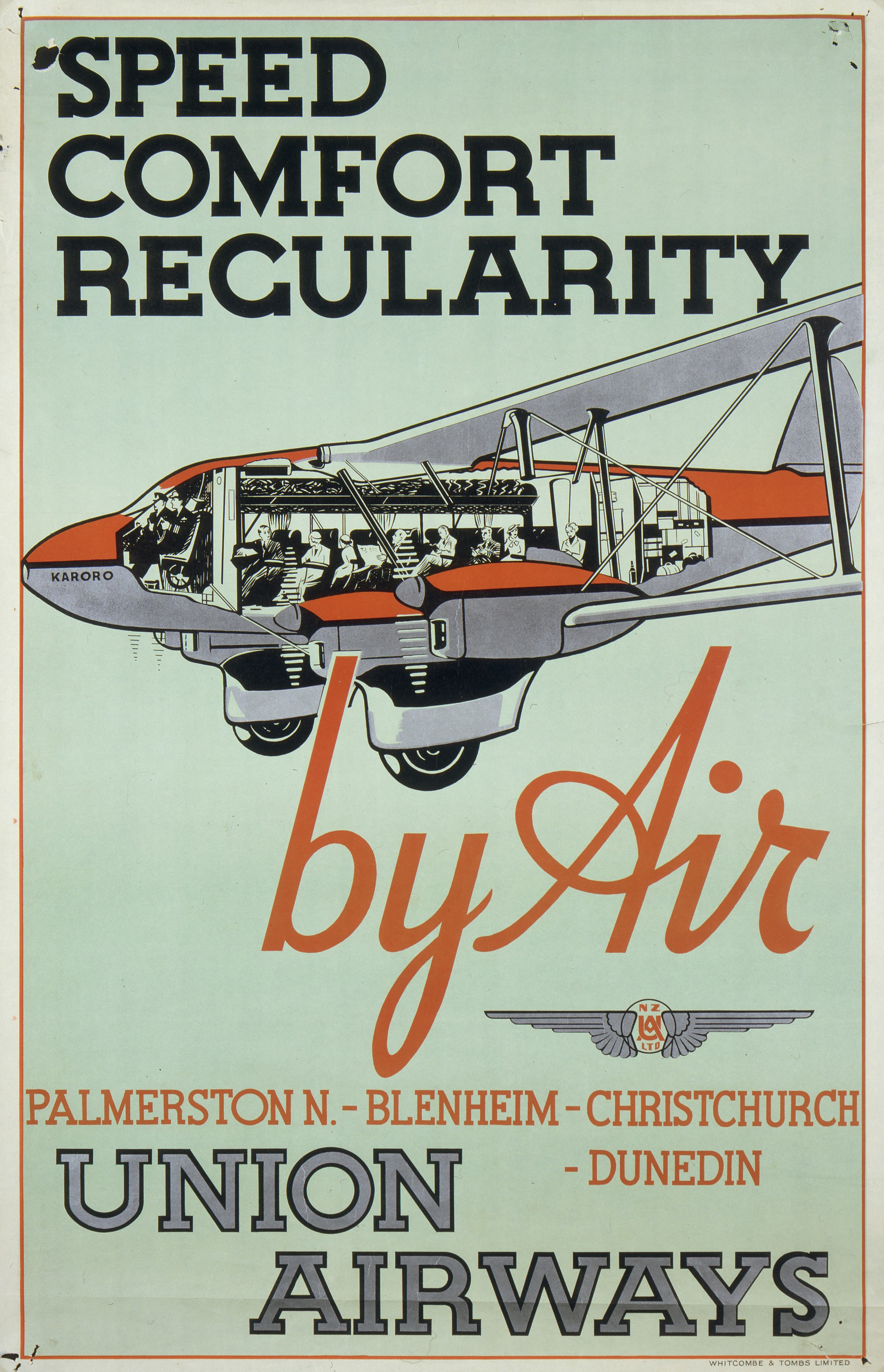 New Zealand Union Airways Ltd, Speed comfort regularity by air; Union Airways, 1936-1939, Relief print, red, green, silver and black, on paper, 886 x 570 mm, Printed Ephemera Collection, Alexander Turnbull Library, Reference: Eph-E-AVIATION-1930s-01 There is something intriguing about cut-away pictures showing a peek inside an inner world, normally hidden from view. It is often used in children’s illustrations and the covers of toy model boxes! On the other hand, the heading “speed, comfort, regularity” evokes advertising for another type of product altogether. Union Airways was, from 1936, the largest New Zealand airline, and began a scheduled interisland service on 16 January 1936. In 1938, it merged with East Coast Airways, which had begun in 1935. Both companies had financial backing from the Union Steam Ship Company. Take a closer look